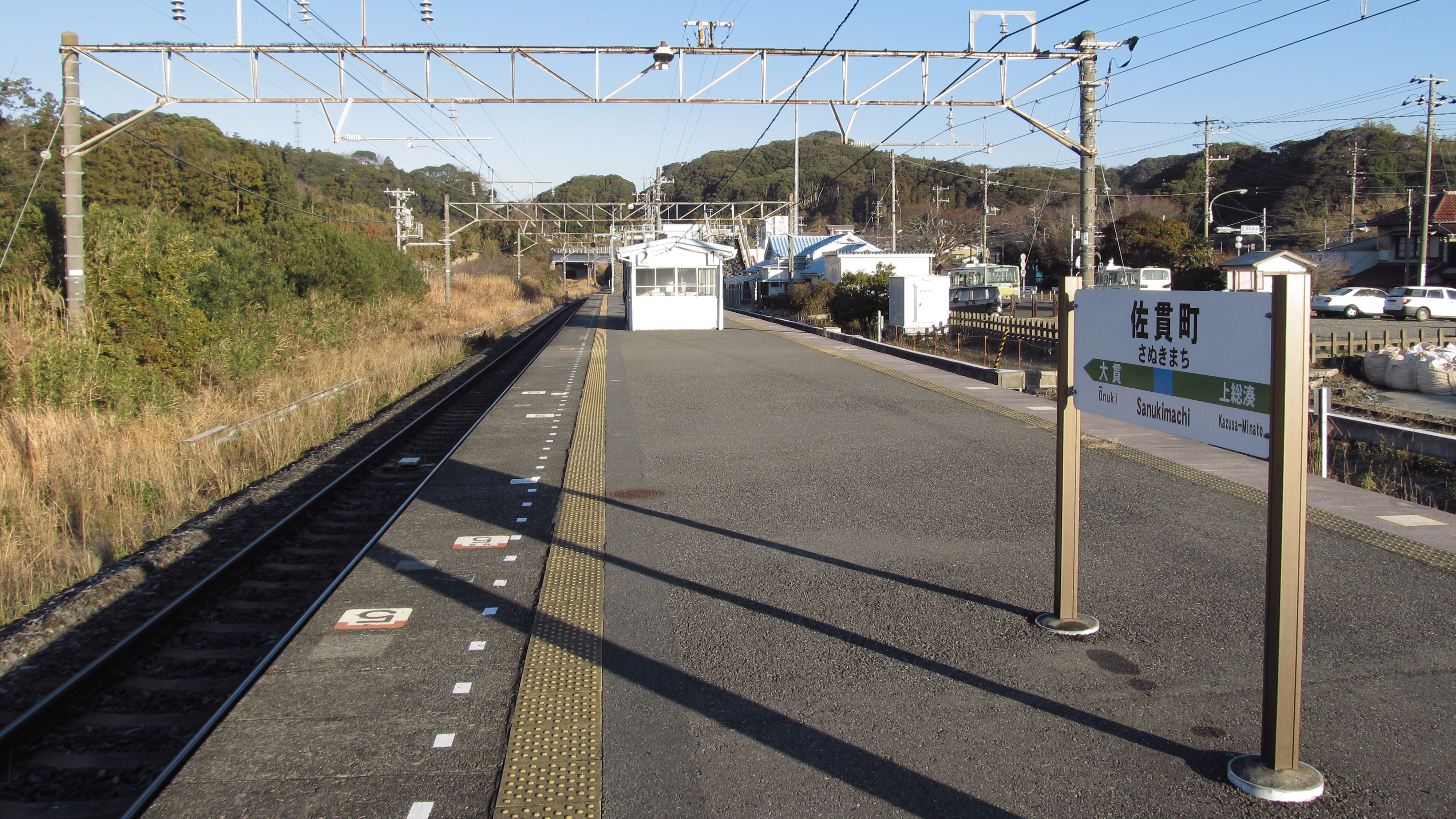 The platform at Sanukimachi Station on the Uchibō Line in Futtsu city, Chiba prefecture, Japan